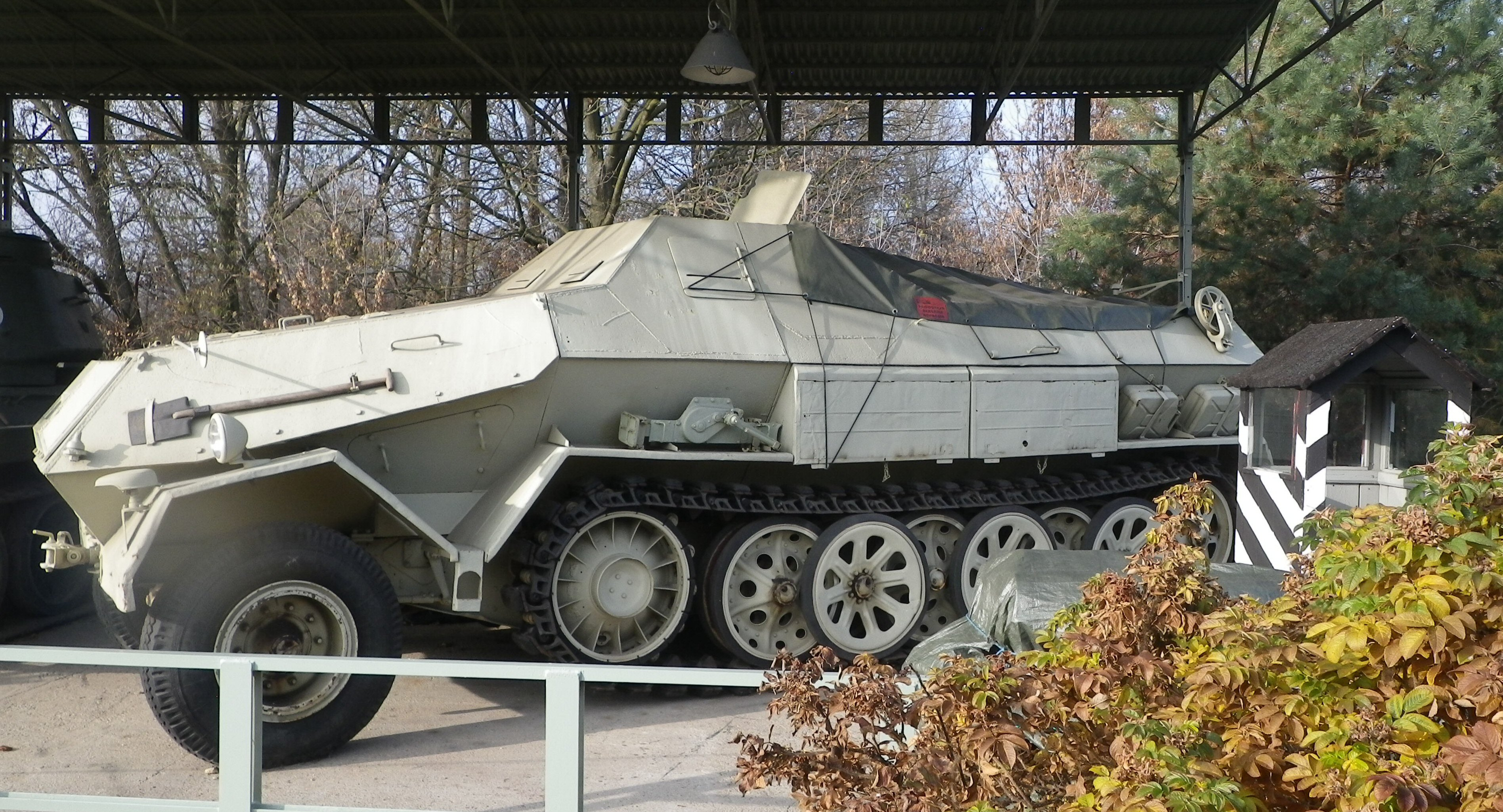 Armoured version of SdKfz 8 Luftwaffe tractor in the Pilica River Open-Air Museum (Skansen Rzeki Pilicy) in Tomaszów Mazowiecki (salvaged from the Pilica)